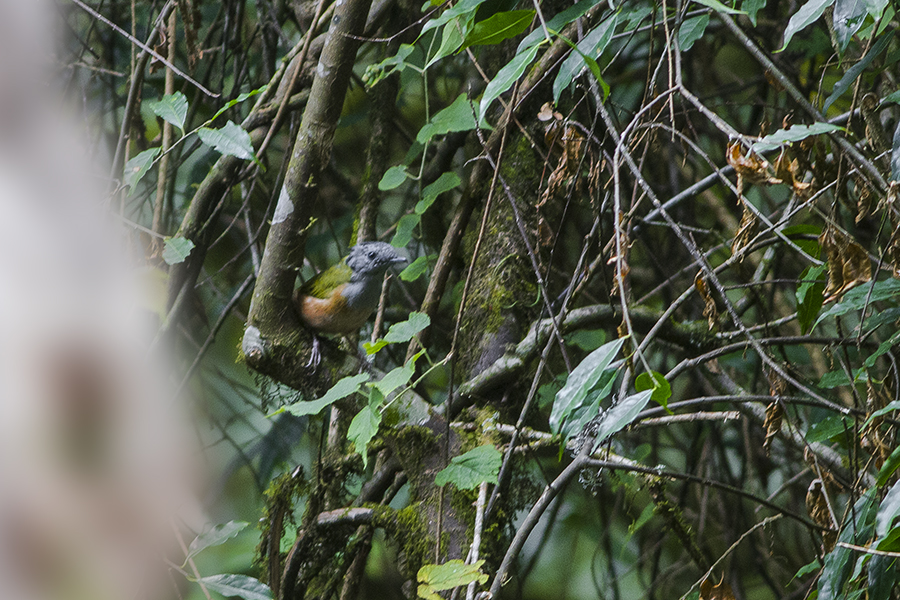 The species Black-headed Shrike Babbler had been photographed during the birding tour of GoingWild at Khangchendzonga NP in West Sikkim, Sikkim, India on 30.10.2015.